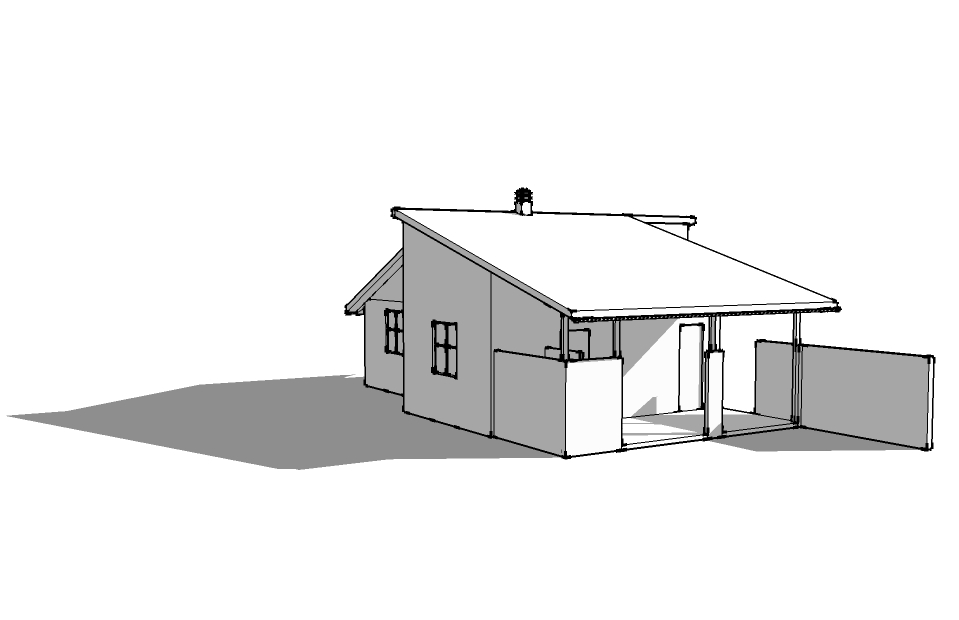 Veduta esterna Veduta della Casa rurale, progettata e realizzata dagli architetti Piero De Amicis e Vincenzo Manente, collocata nel Parco realizzata per la X edizione della Triennale di Milano